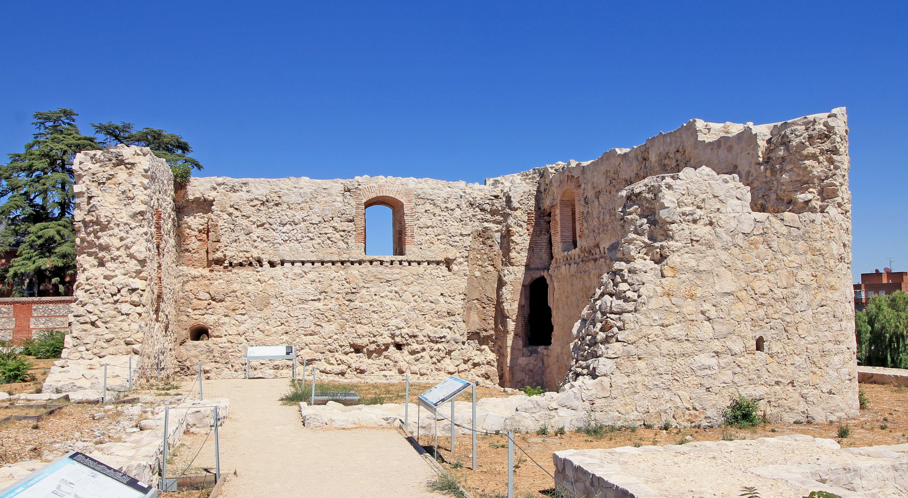 View of La Alameda Castle in Madrid (Spain).